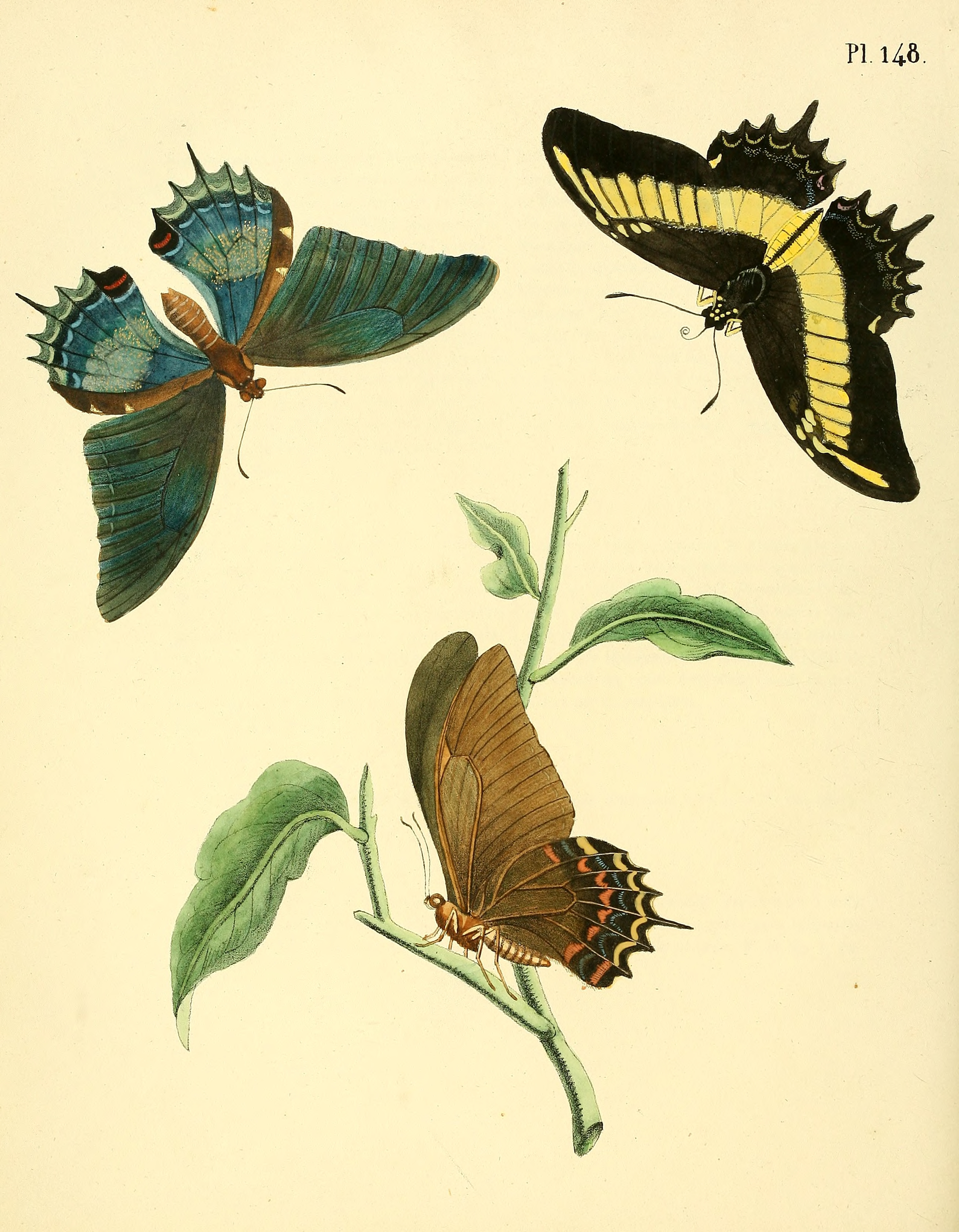 Illustration of: Papilio androgeus (as syn. Papilio polycaon)